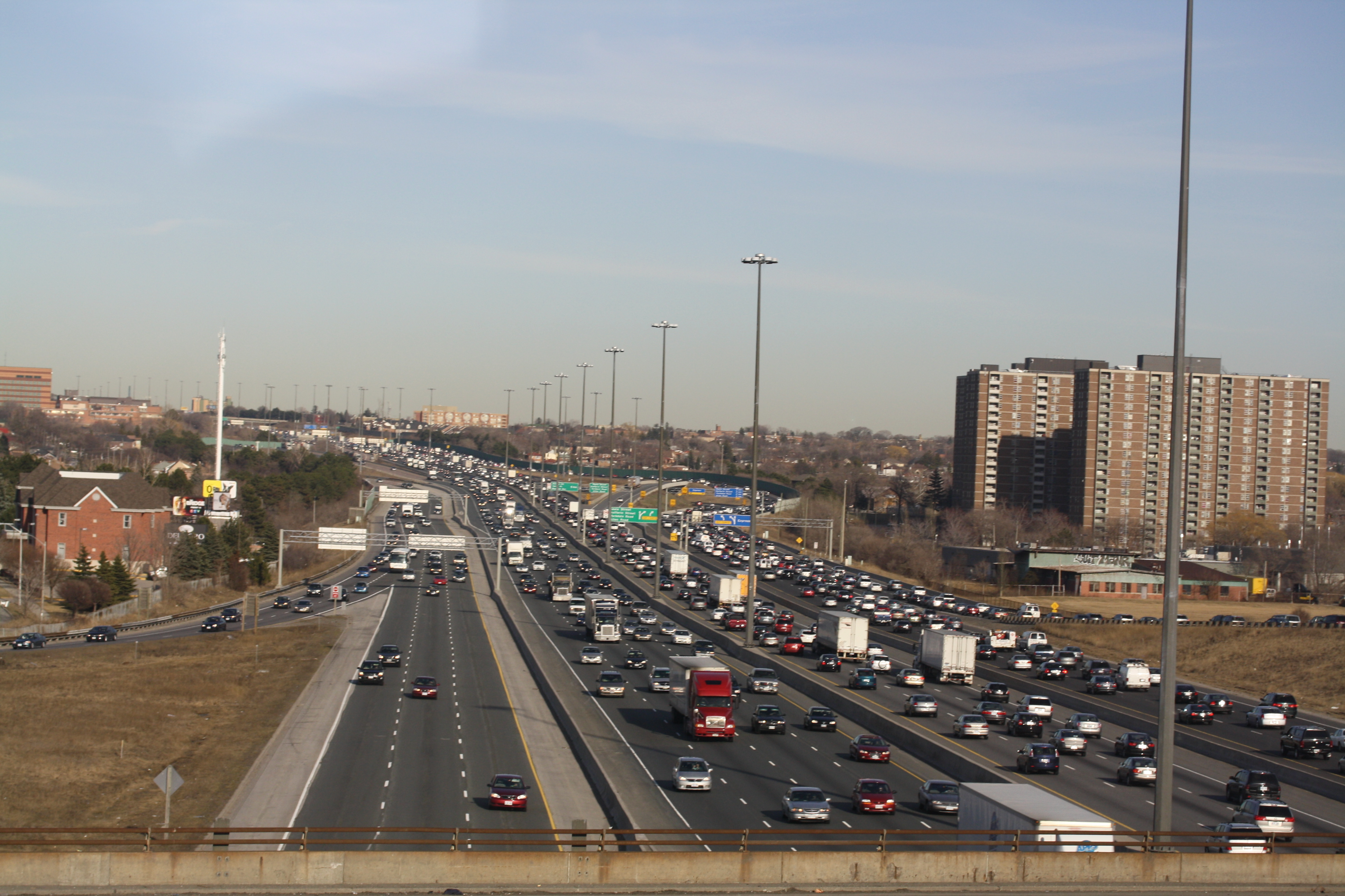 One of the busiest sections of Highway 401